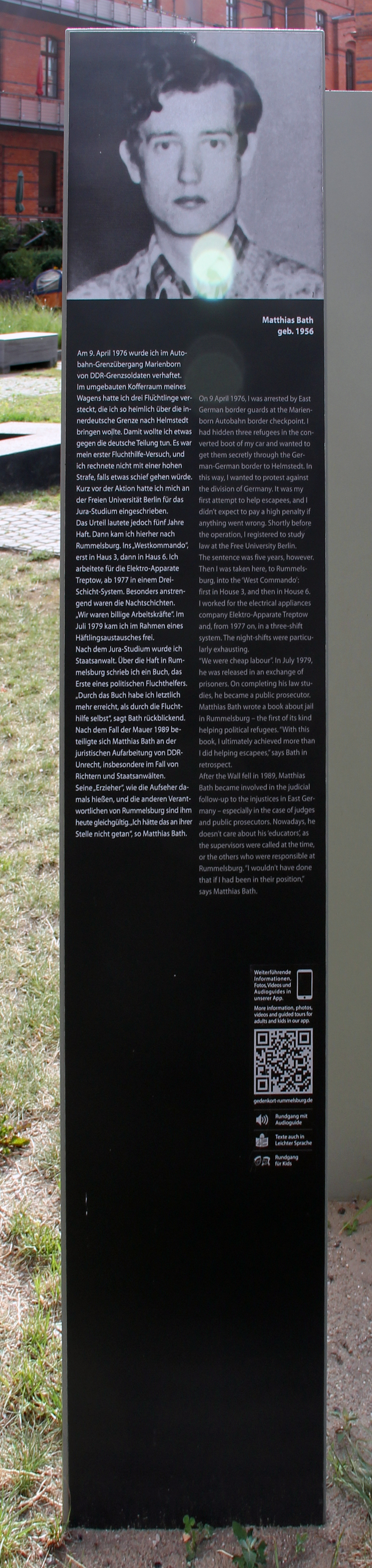 Memorial plaque, Matthias Bath, Hauptstraße 8, Berlin-Rummelsburg, Deutschland